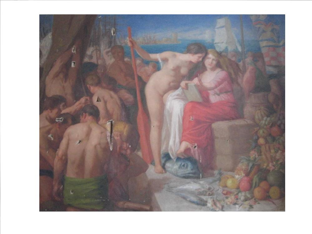 Allégorie du commerce Musée de La Rochelle